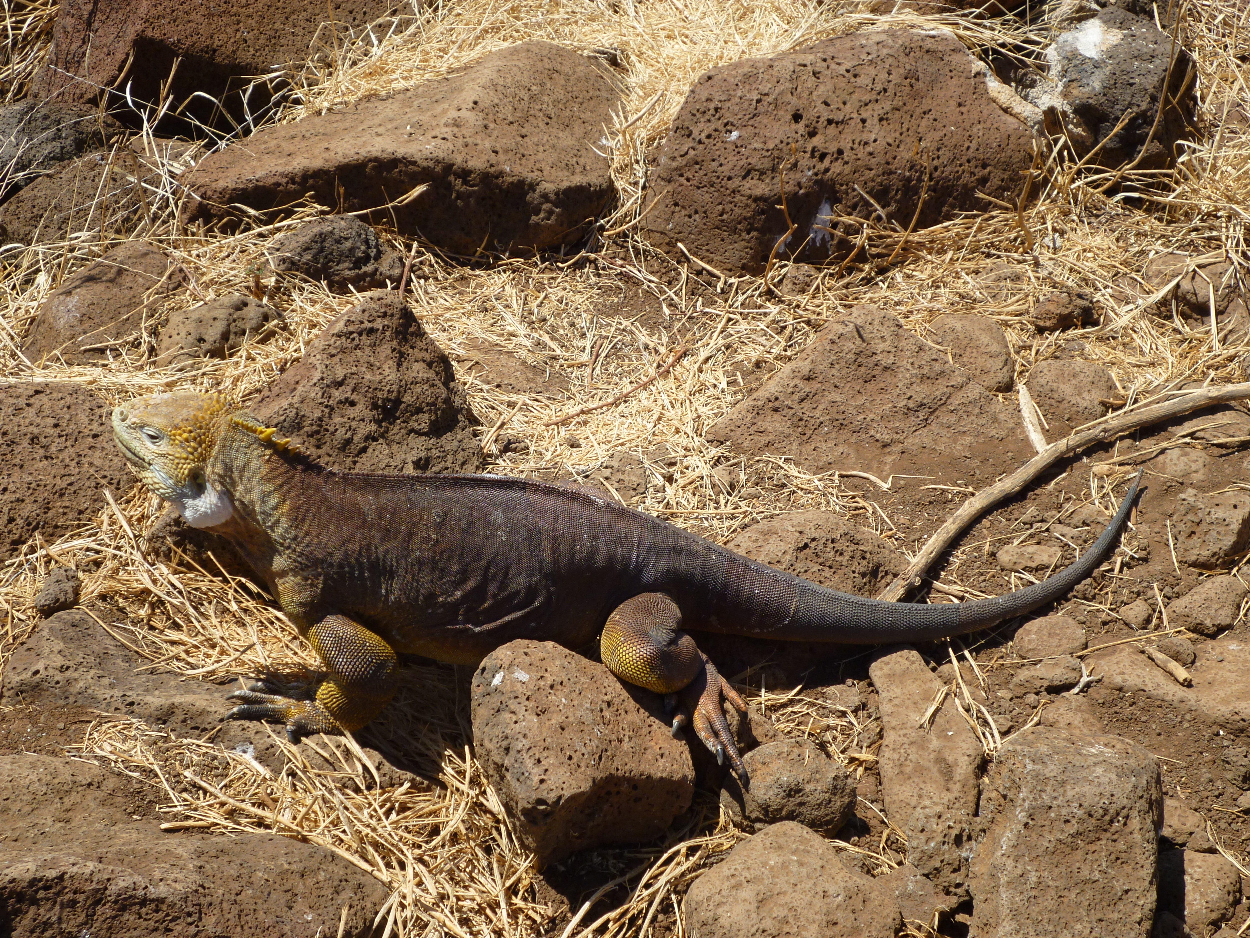 Photographed by David Adam Kess on North Seymour Island in the Galápagos The Galapagos land iguana (Conolophus subcristatus) is a species of lizard in the family Iguanidae. It is one of three species of the genus Conolophus. It is endemic to the Galápagos Islands, primarily the islands of Fernandina, Isabela, Santa Cruz, North Seymour, Baltra, and South Plaza